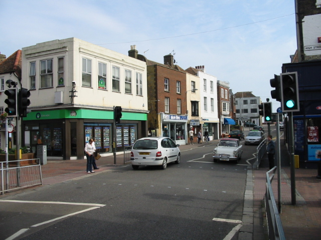 The A258 Queen Street The A258 cuts through the High Street